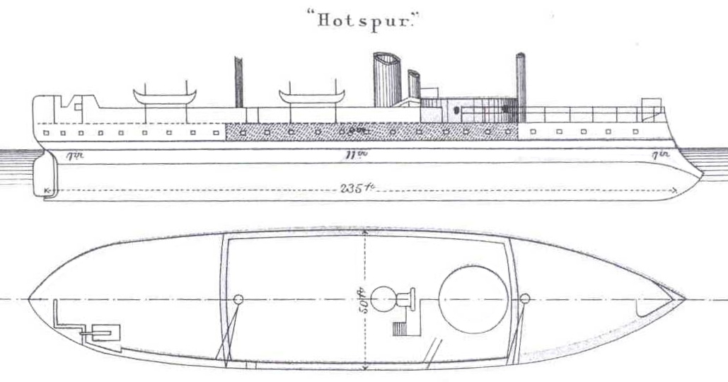 Diagrams depicting right elevation and plan views of British iron clad ram HMS Hotspur.